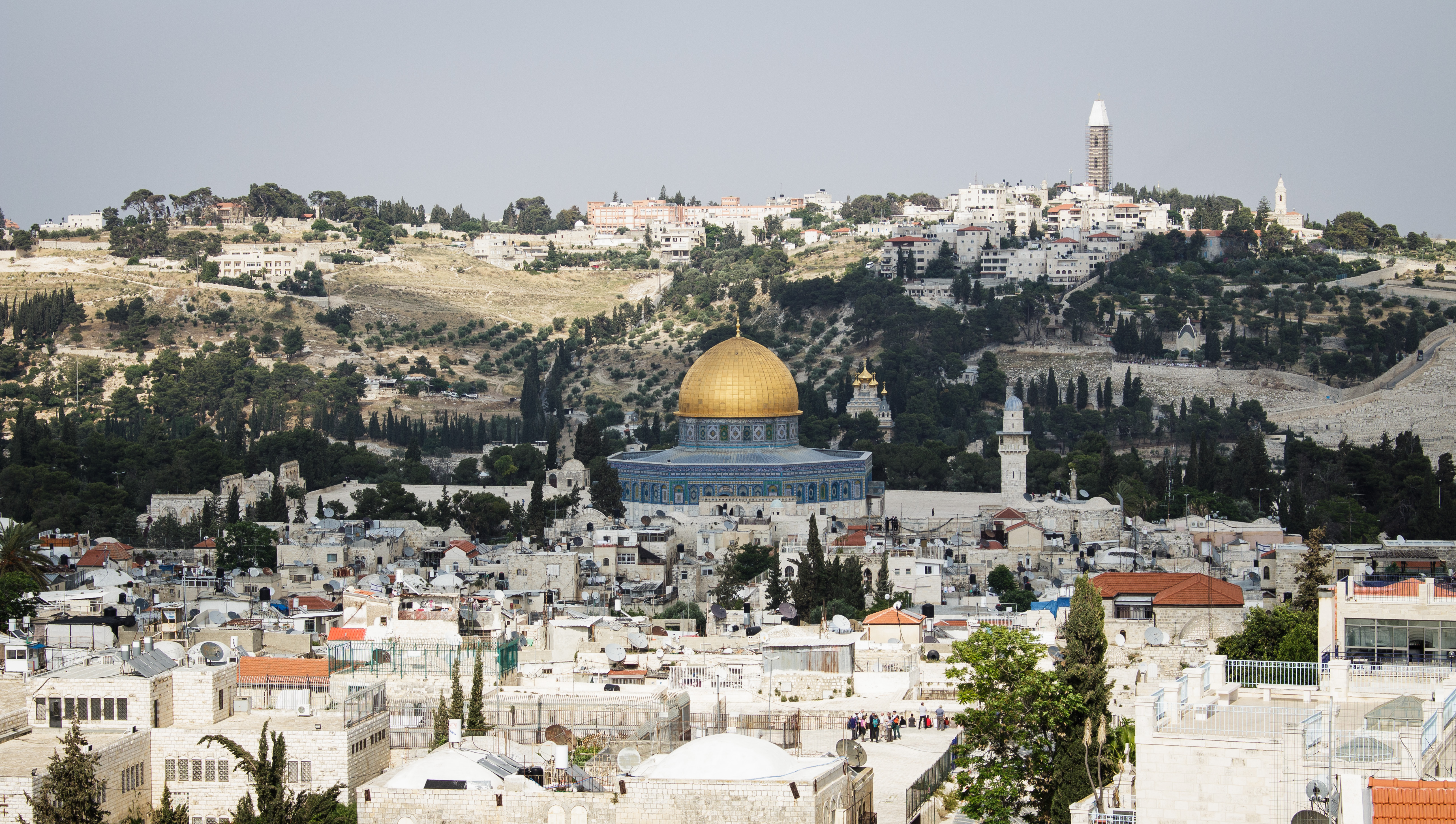 Features the old city roof tops and the Dome of the Rock in the foreground with the Mount of Olives in the background.